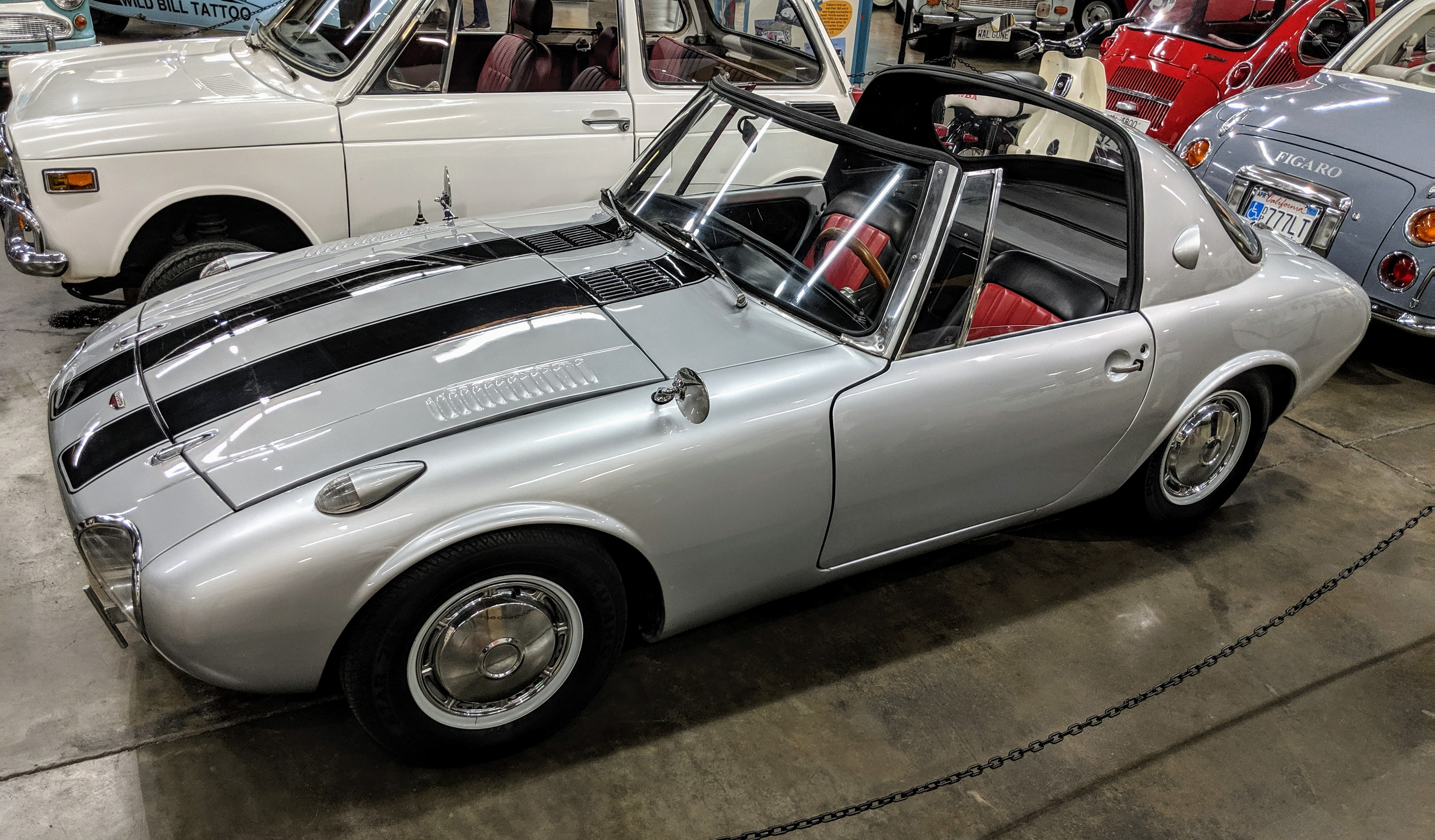 A 1967 Toyota Sports 800 o. display at the California Automobile Museum. This example has left-hand drive. Photo by Jim Heaphy.